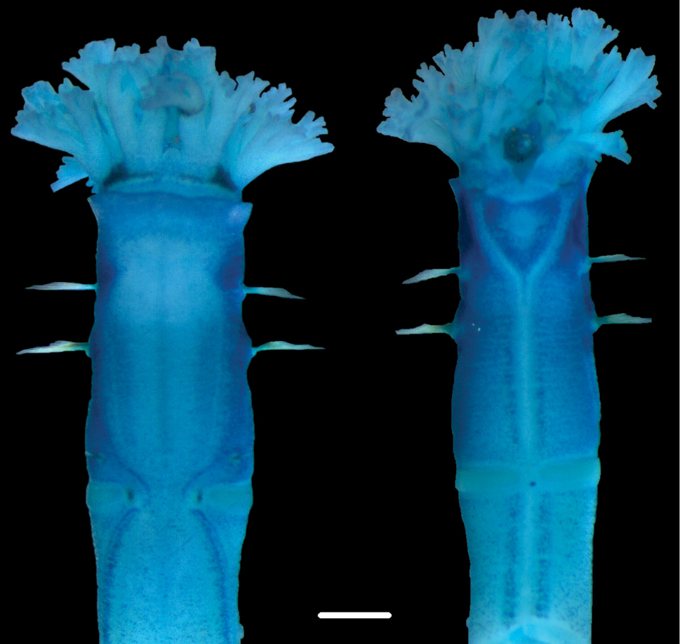 Figure 29; Methyl green colour pattern of anterior end of the body in dorsal (left) and ventral (right) views. Scale bar: 5 µm.